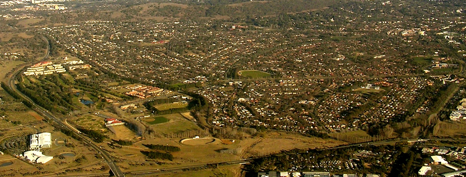 Areal photo of Narrabundah and Red Hill, early morning light from east